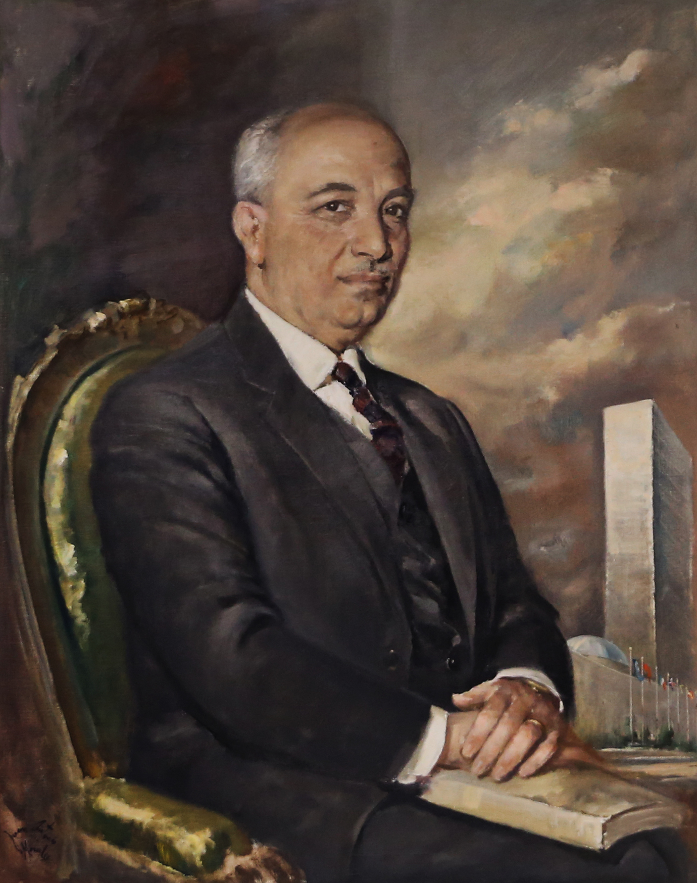 Palazzo Comunale (Pieve Santo Stefano)